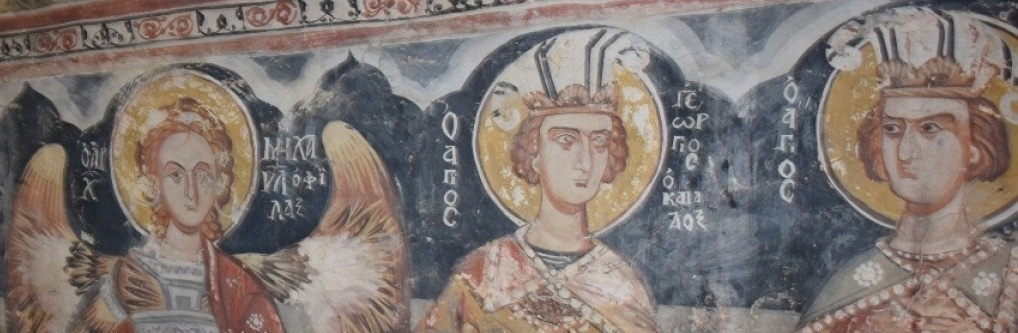 Saint Athanasius Kostochori